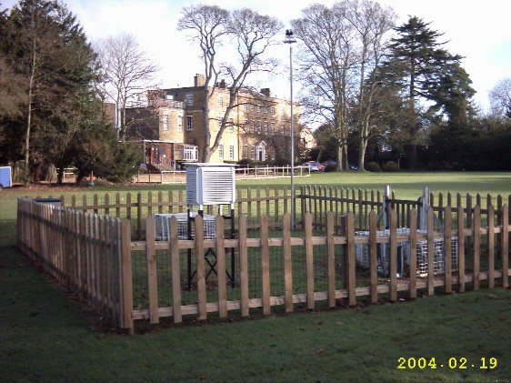 Pitsford Hall The weather enclosure at Northamptonshire Grammar School, Pitsford.